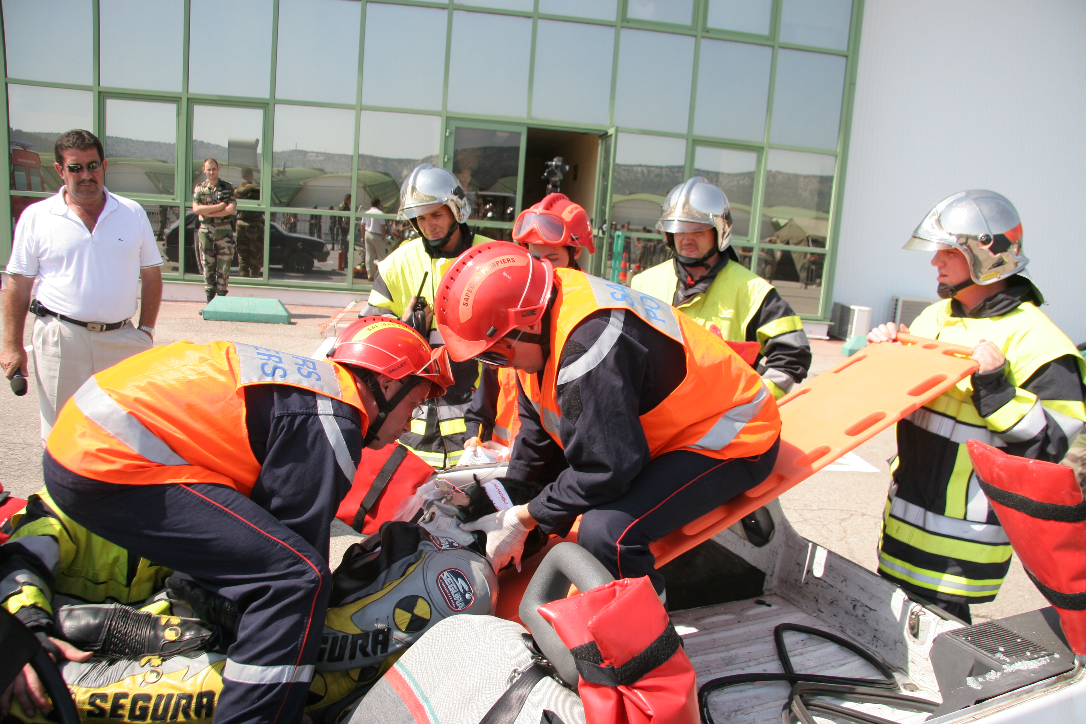 A victim being placed on a long spine board during an exercise